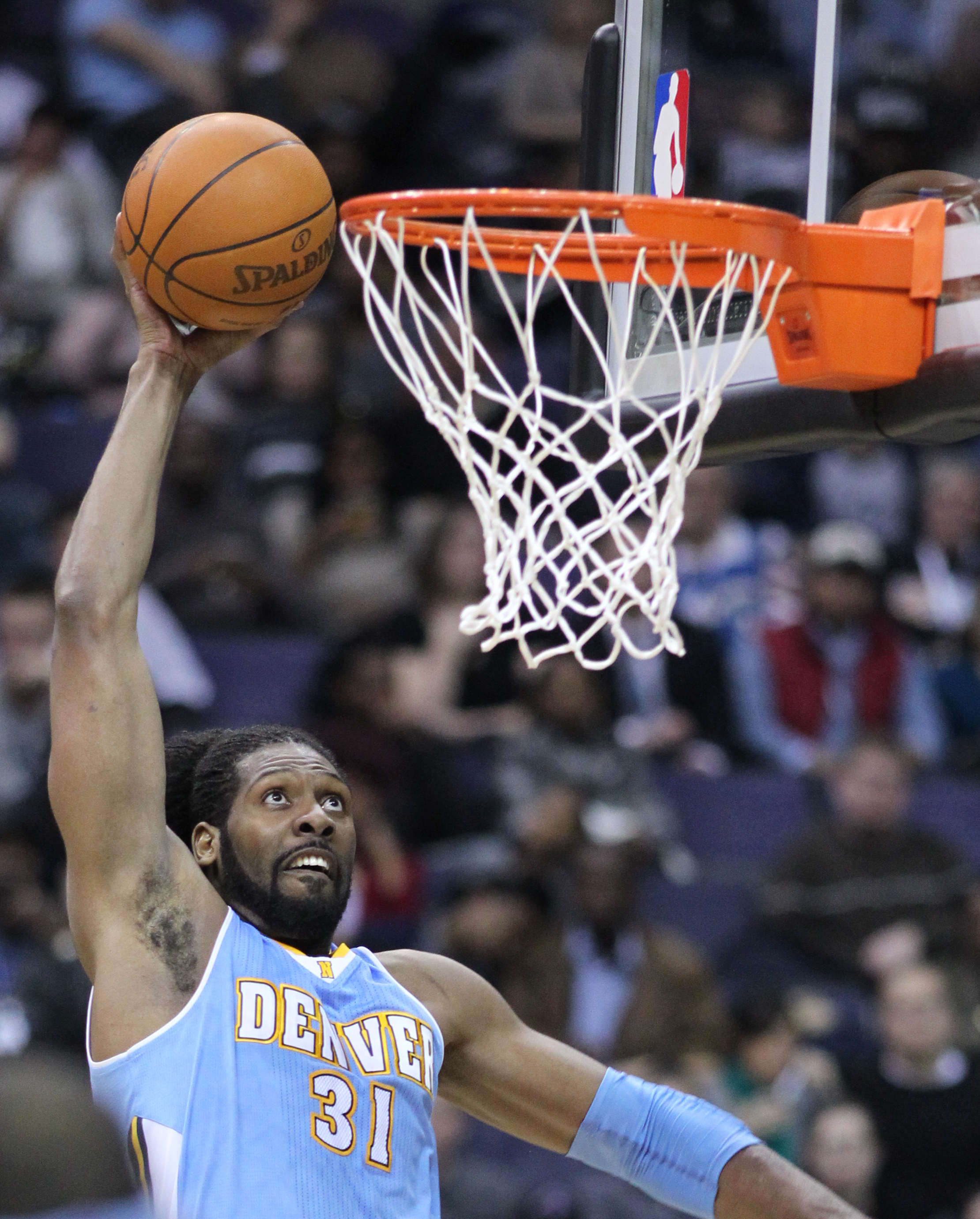 Washington Wizards v/s Denver Nuggets January 25, 2011